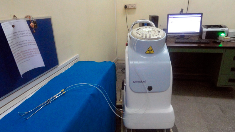 Karknidon - Indigenous Brachytherapy Equipment developed by BRIT, DAE, India